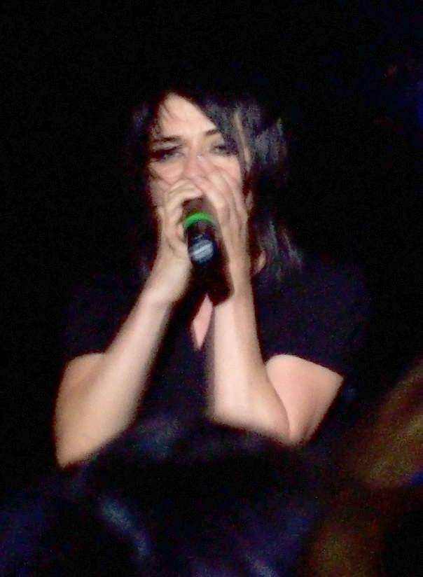 Lacey Mosley, lead singer of Flyleaf at Cornerstone Festival 2007.